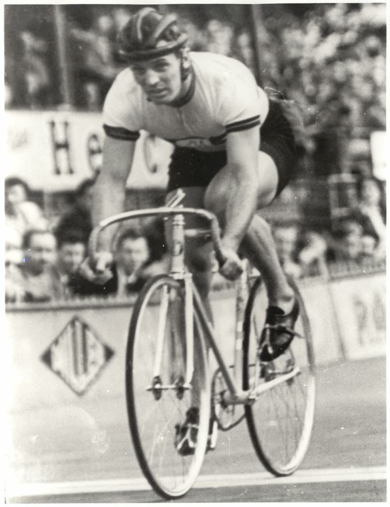 Lionel Cox competing at the Helsinki Olympic Games, 1952.